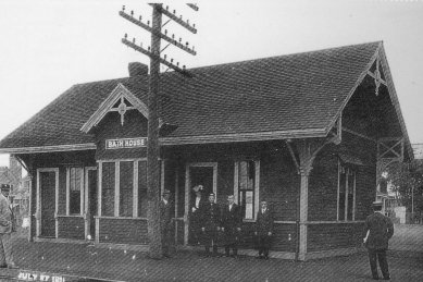 Bath House station on a photograph with unclear date; since there are no catenary poles (thus before) 1928 and the last digit of the year is 1, this appears to be 1921.